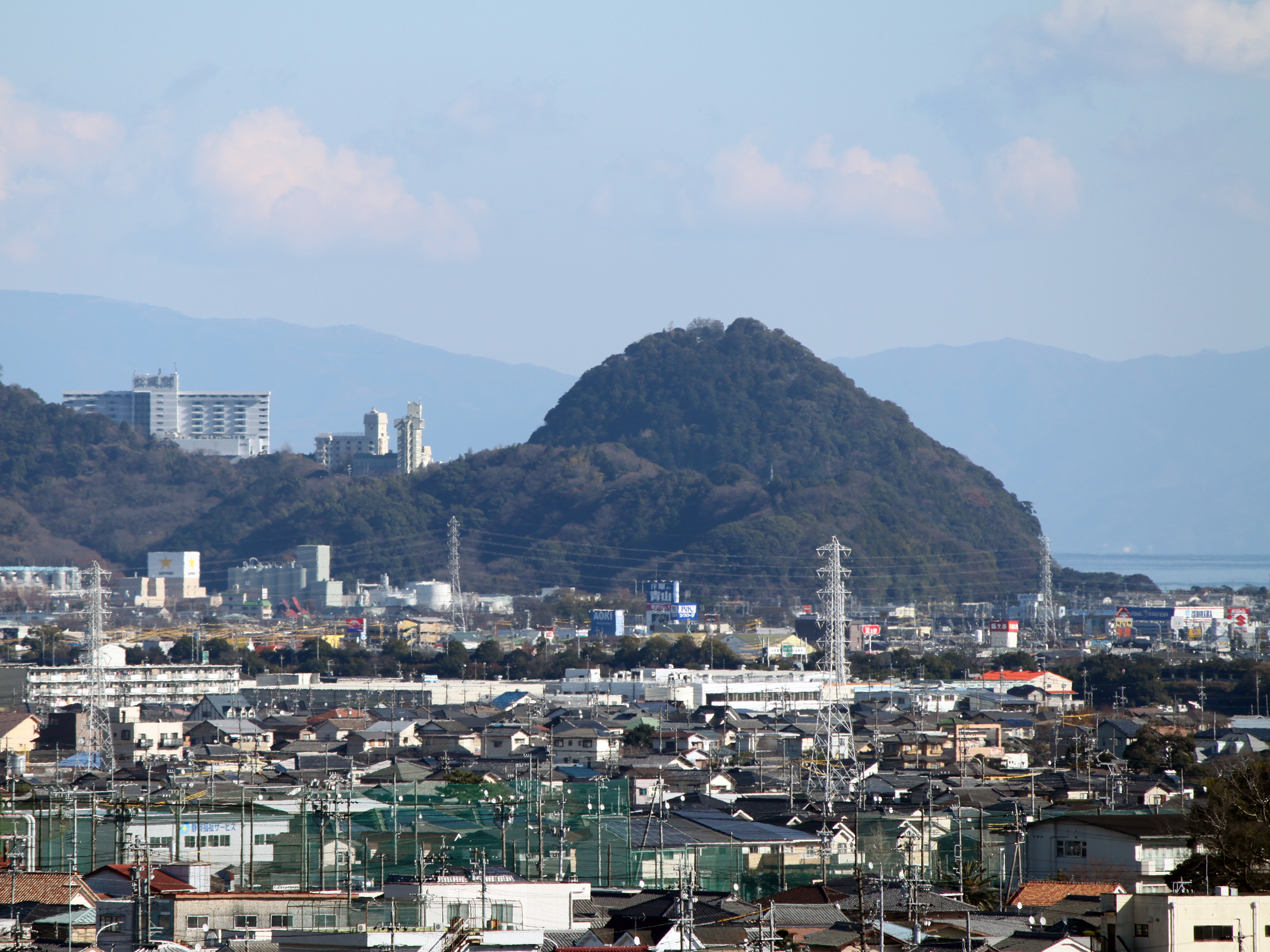 Mount Kokuzo as seen from Fujieda City